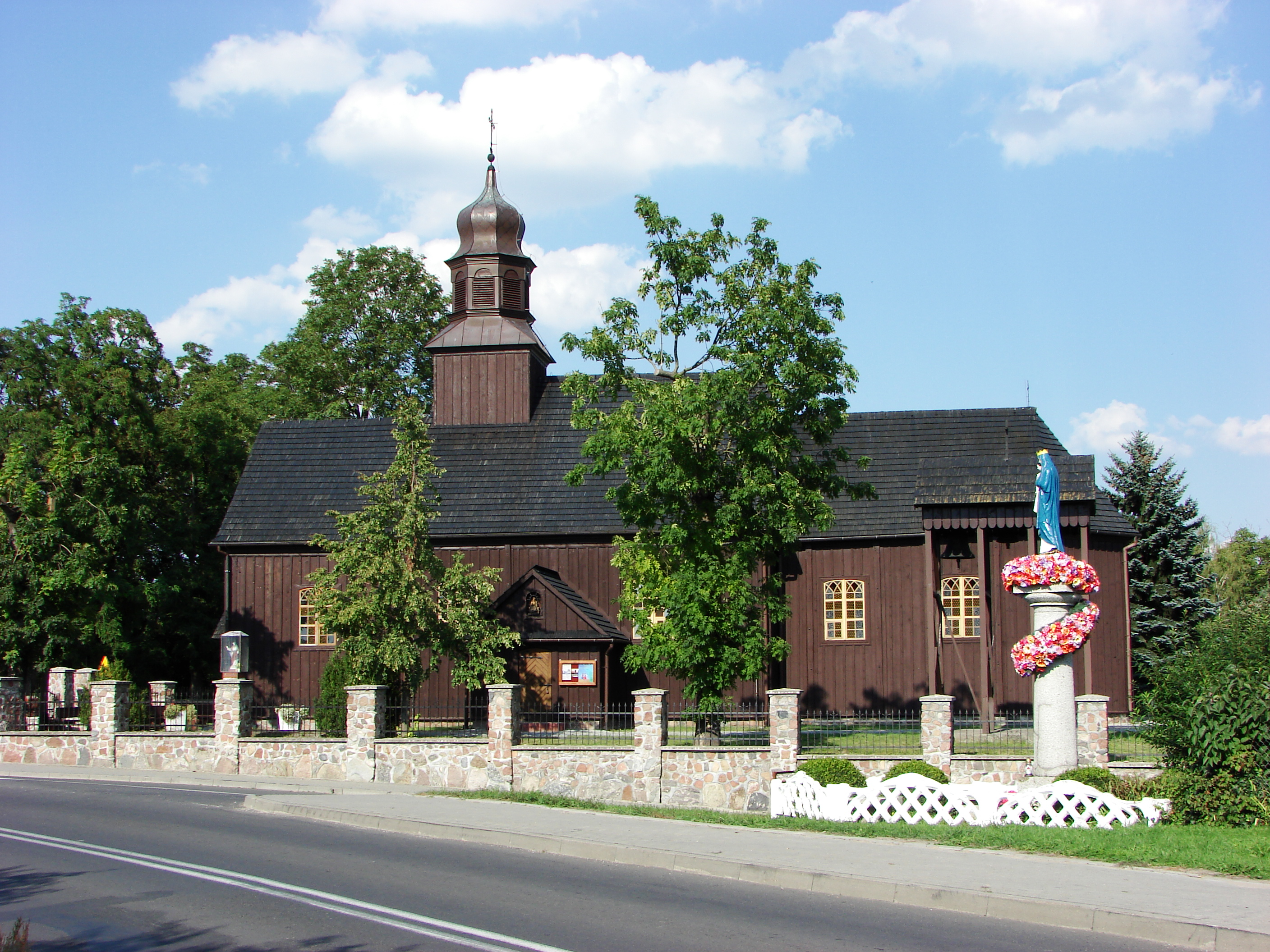 Straszewo, Gmina Koneck, Aleksandrów County, Kuyavian-Pomeranian Voivodeship, Poland. Parish church of Saint Martin from 1780.